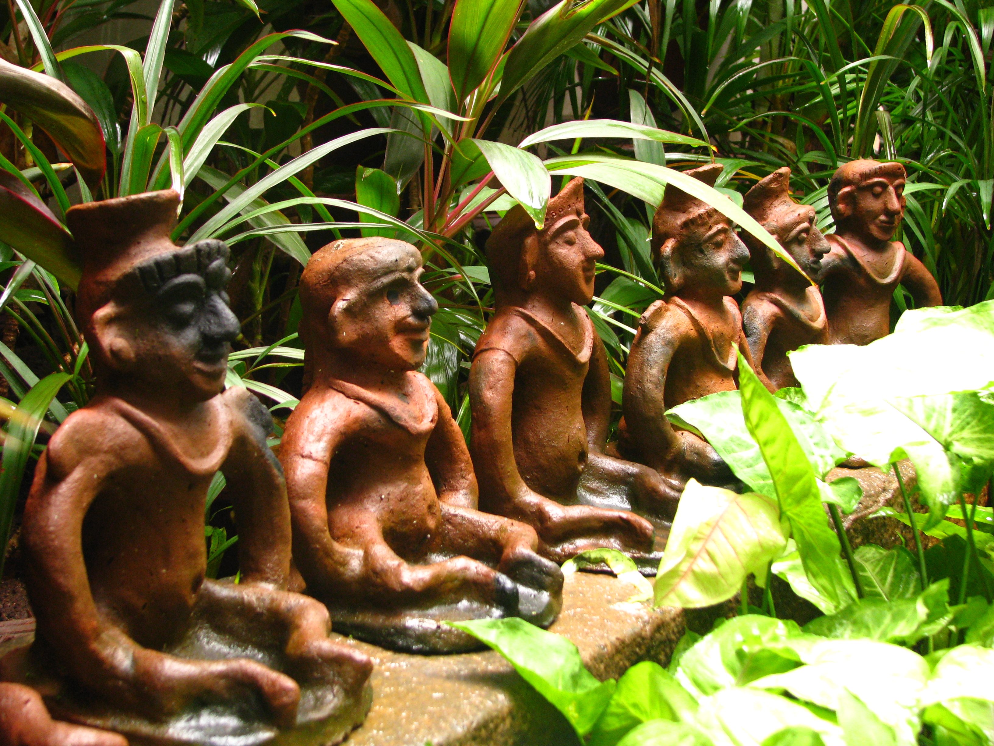 Cute statues tucked among the rain-damp greenery of the courtyard.